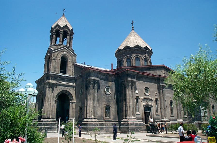 Cathedral of the Holy Mother of God at the Vardanants Square of Gyumri, Armenia.